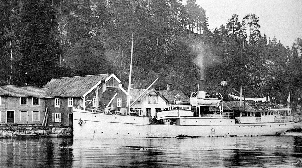 Norwegian coastal steamer SS Statsraad Riddervold